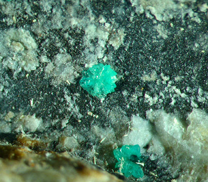 Tsumebite Locality: Blue Bell claims (Hard Luck claims), Baker area, San Bernardino County, California, USA (Locality at ) Size: 6.8 x 3.8 x 3.2 cm. Tsumebite is a rather rare Lead Copper Phosphate Sulfate and is only found from a few world localities. It was obviously named after the Tsumeb mine in Namibia. This piece is a good reference specimen of featuring green micro crystal aggregates of Tsumebite on matrix. If nothing else it is a unique collector's specimen from this secondary ore mineral locality in California.